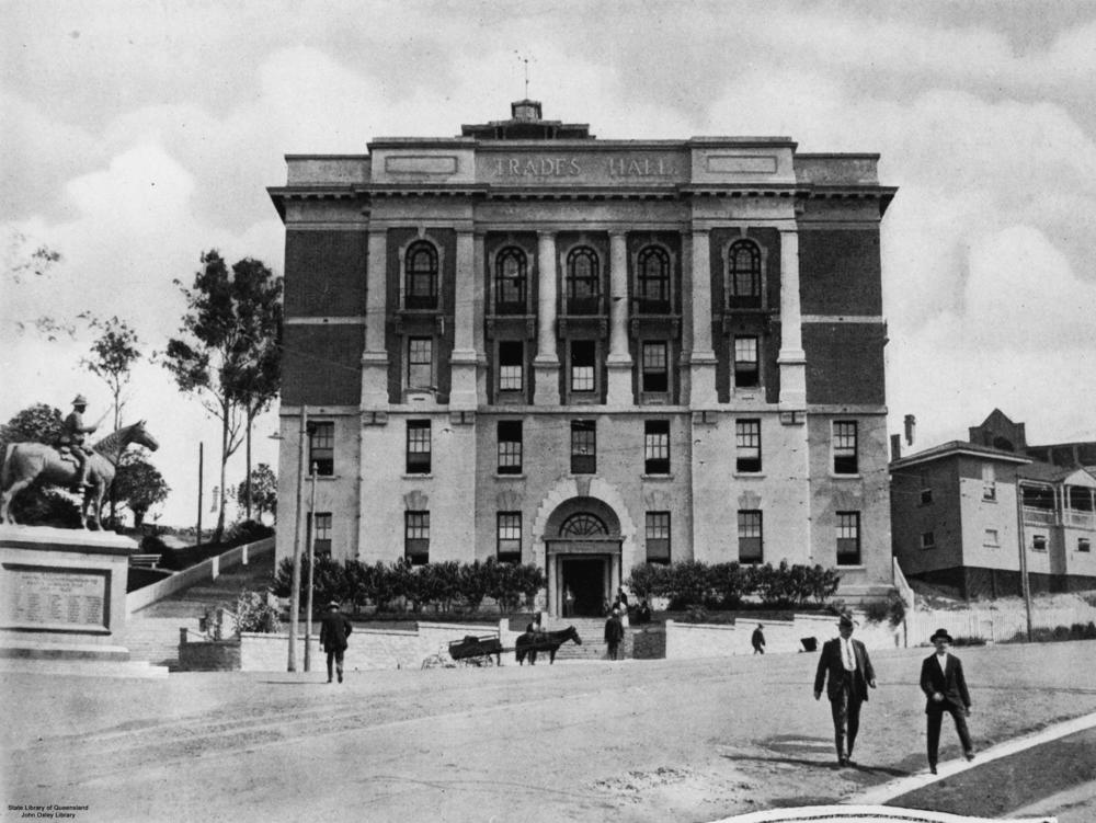 View of the Trades Hall building in Brisbane, ca. 1928. Front view of the imposing Trades Hall building in Brisbane, around 1928. The statue to the far left of the photograph is the Boer War Memorial which was later moved to Anzac Square.